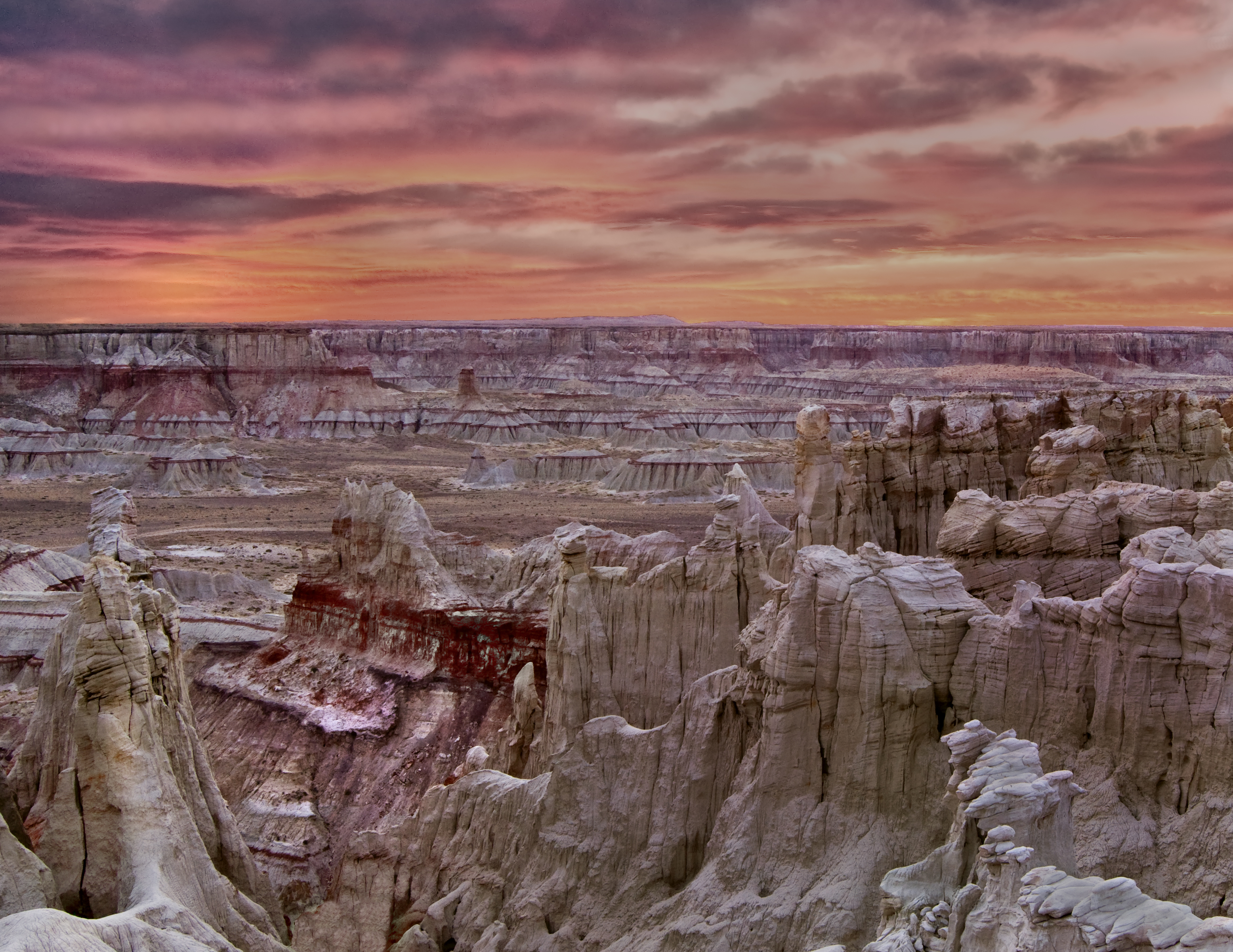 Coal Mine Canyon at sunset — Coconino County, Arizona. Manipulated photo, see link for details.